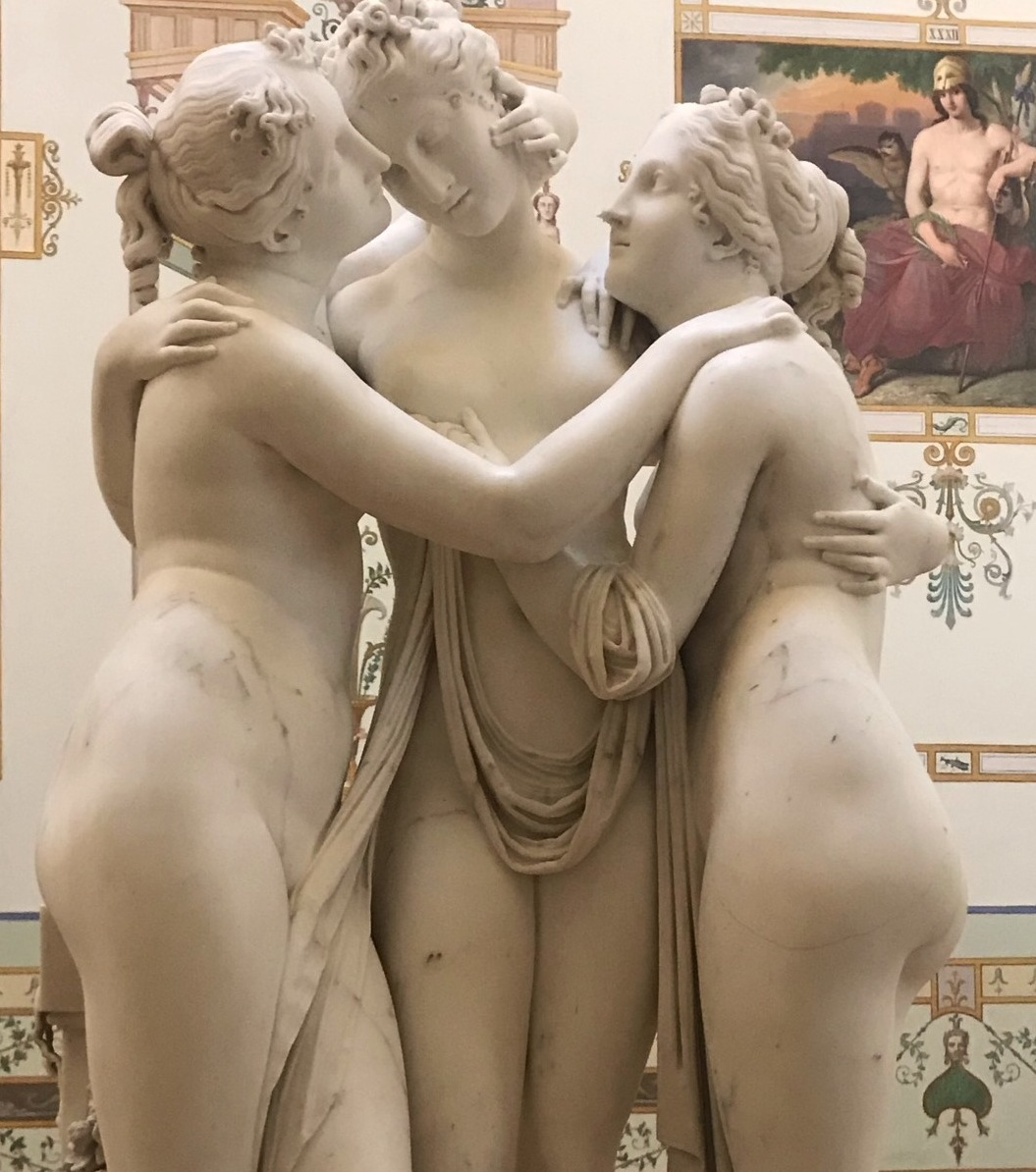 From the youngest to oldest the Graces were: Aglaea ("Beauty"), Euphrosyne ("Good Cheer"), and Thalia ("Festivities"). Also known as the Charites (Greek Mythology name) or Gratiae by the Romans. They appear in many works of art, such as Boticelli's Primavera at the Uffizi gallery.